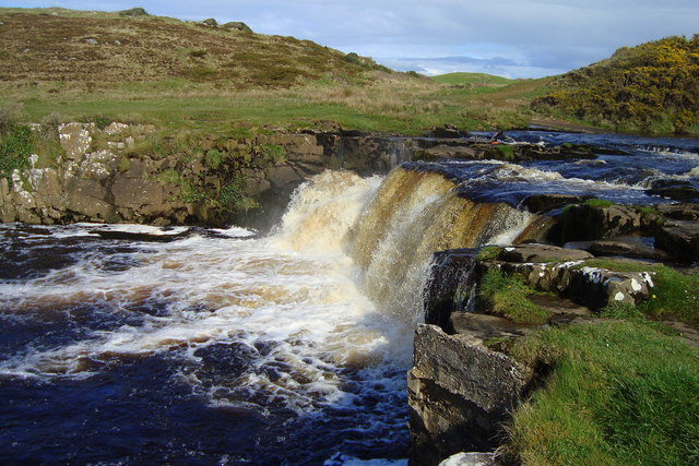 Falls on the River Duff The Duff River, or An Duibh, meaning 'the black'. Seen here at the falls close to the point where it enters the Atlantic. The river also forms the Sligo/Leitrim border, with the picture being taken in County Sligo.